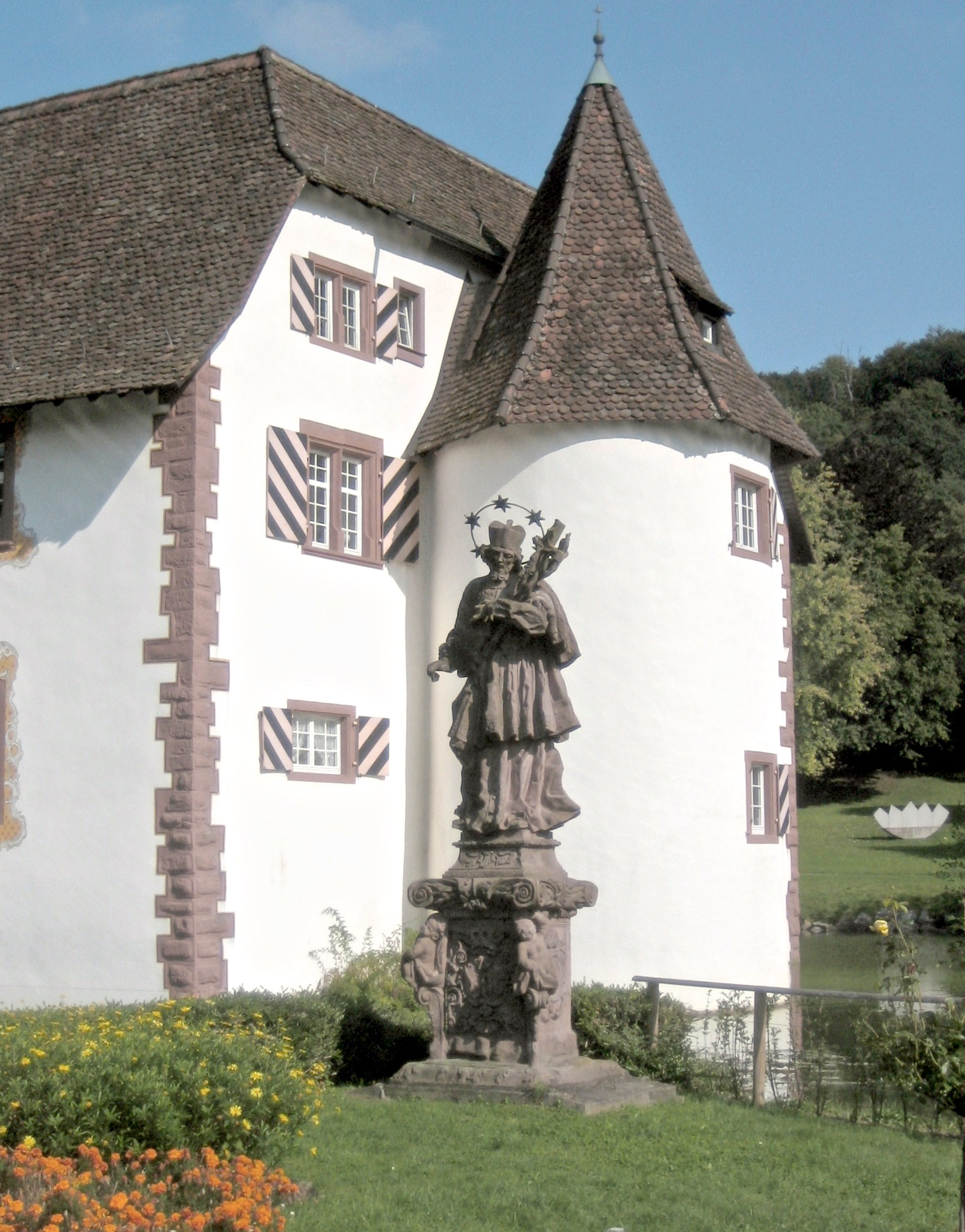 Inzlingen Castle - statue of Saint John of Nepomuk